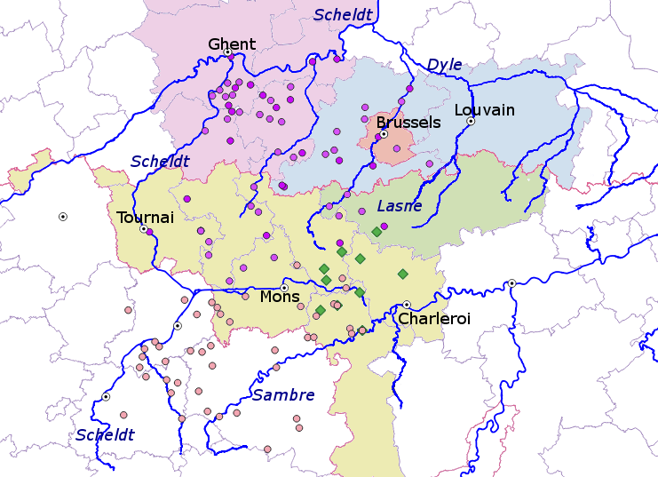 The information is derived mainly from Ulrich Nonn's Pagus und Comitati, and Xavier Deru's, Cadres géographiques du territoire des Nerviens.